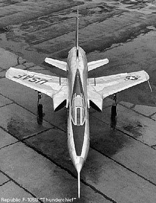 Republic F-105B. Note the -area rule- (pinched) fuselage